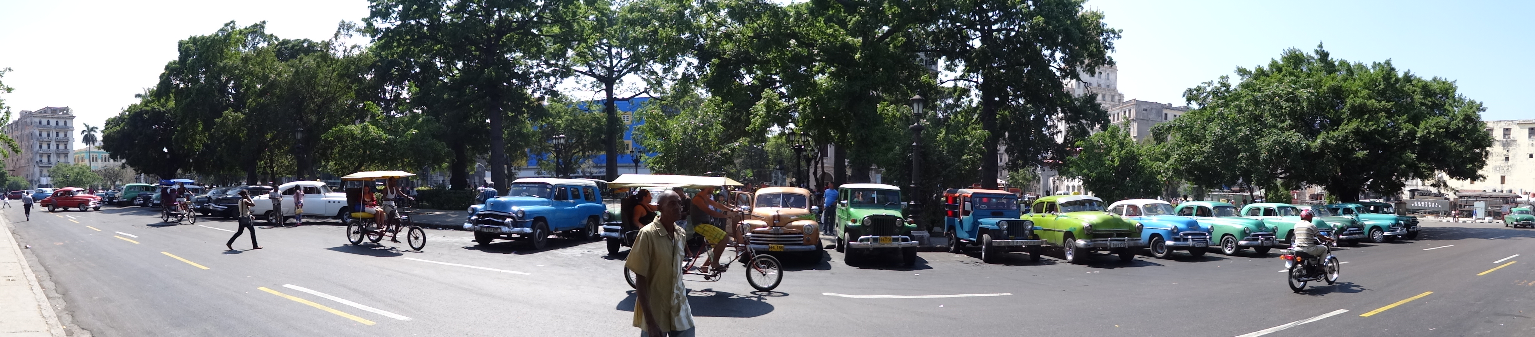 Cars in Cuba, Havana, 2014